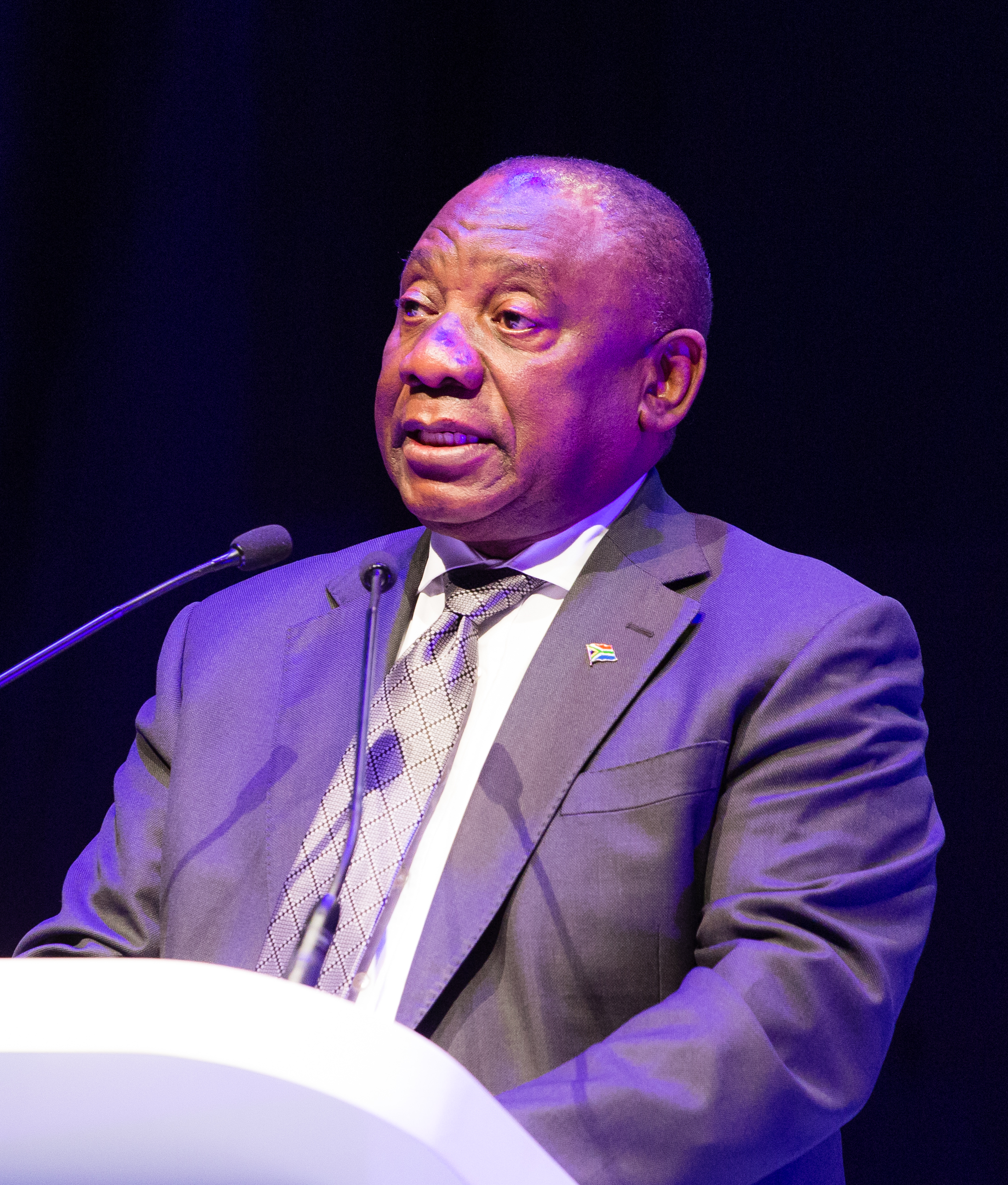 H. E. Mr. Cyril Ramaphosa President The Presidency ITU Telecom World 2018 ©ITU/Browne